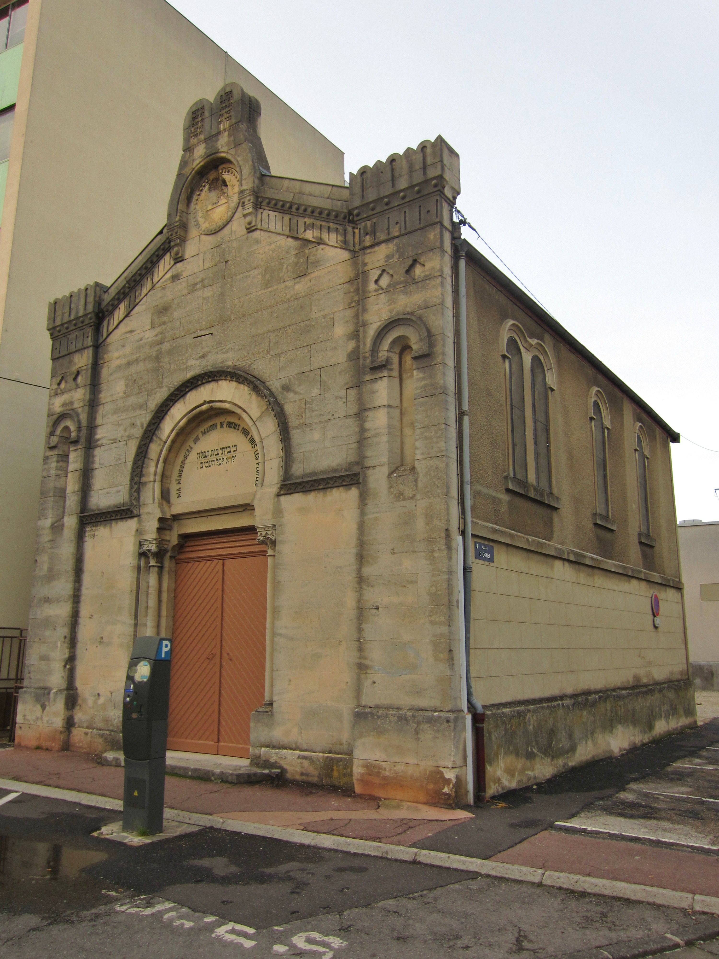 Description synagogue Saint Dizier Date9 November 2011Sourcemon appareil photoAuthorAimelaimePermission (Reusing this file) synagogue Saint Dizier